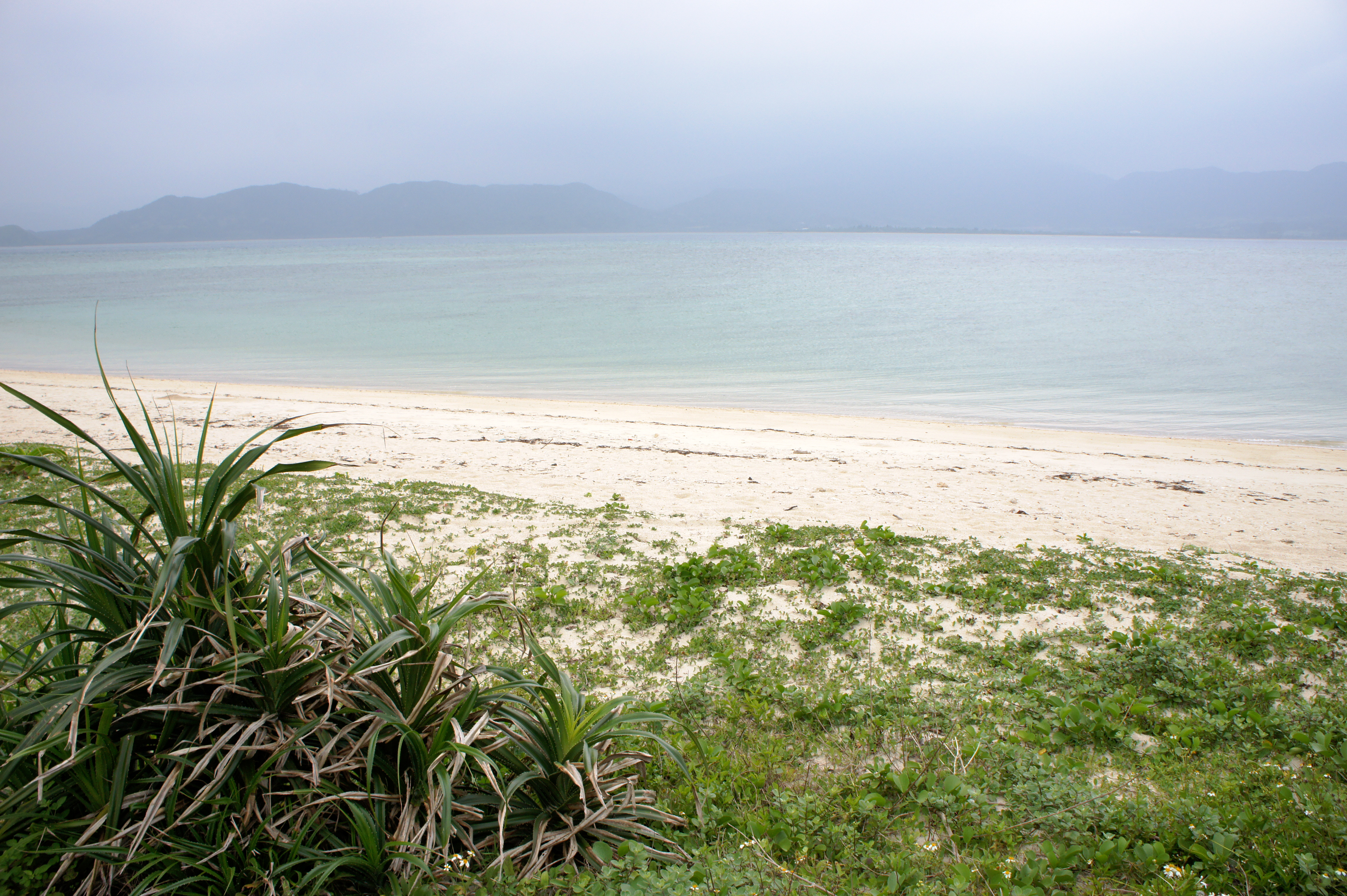 at Uminchu Park of Kubasaki in Kohamajima, Taketomi Town, Okinawa Prefecture, Japan.